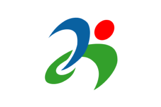 Flag of Misato Shinane